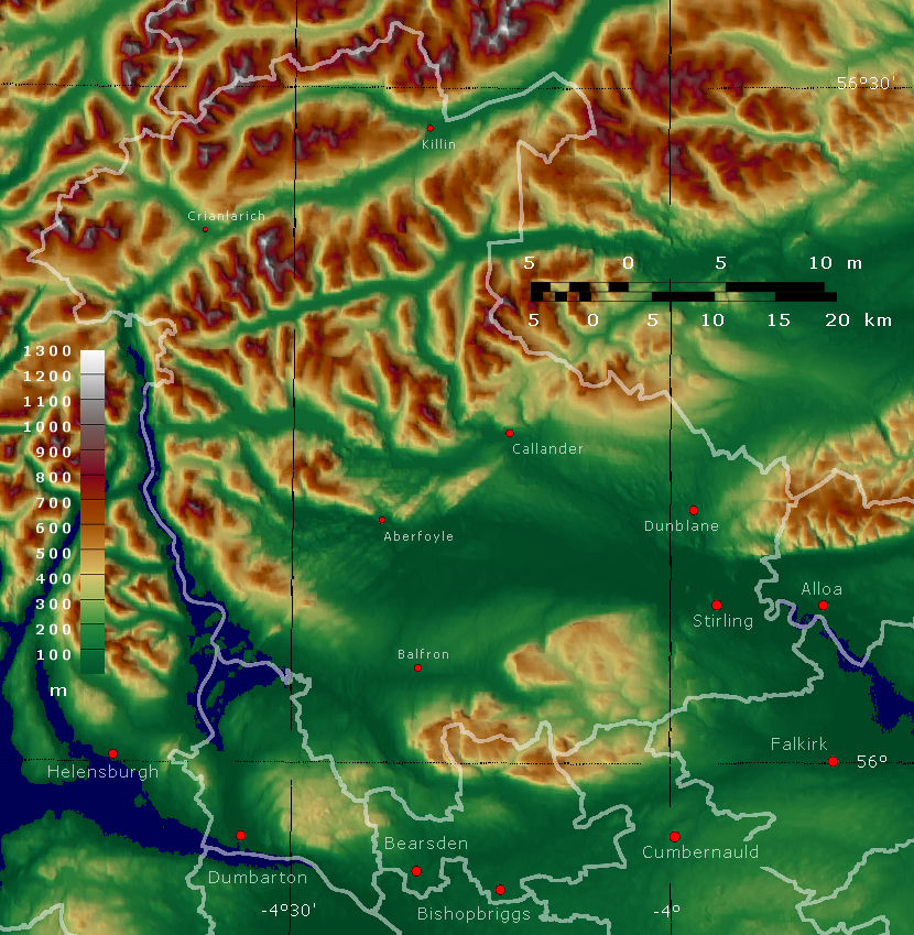 Map created with 3DEM from SRTM (